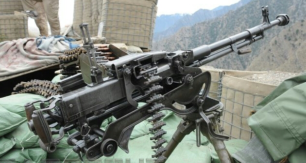 ANA dshk kunar province